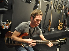 Ryan Martinie showing his tapping technique on(?) Frankfurt Musikmesse 2010.